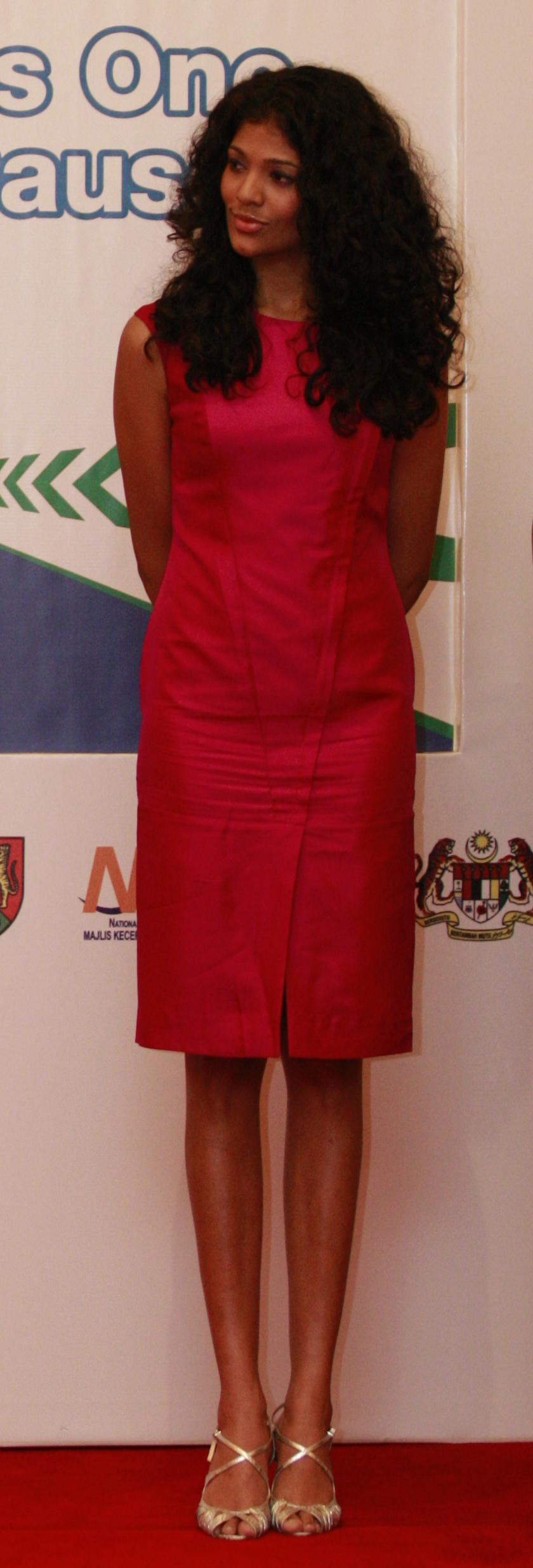 Miss Malaysia World 2009 running for charity